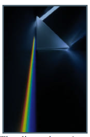 تجزیه نور مریی در منشور